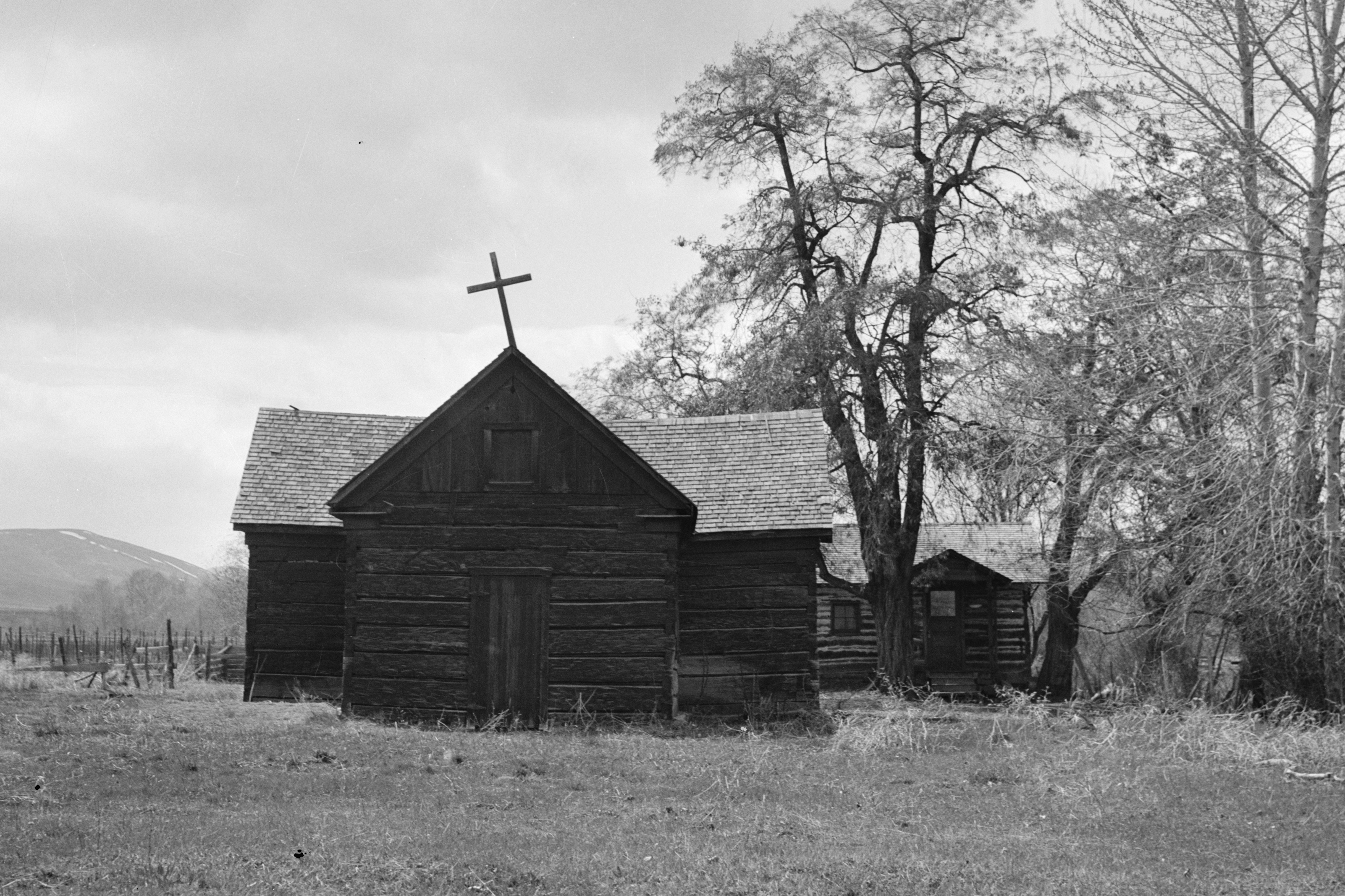 St. Joseph's Mission, near Tampico, Yakima County, Washington